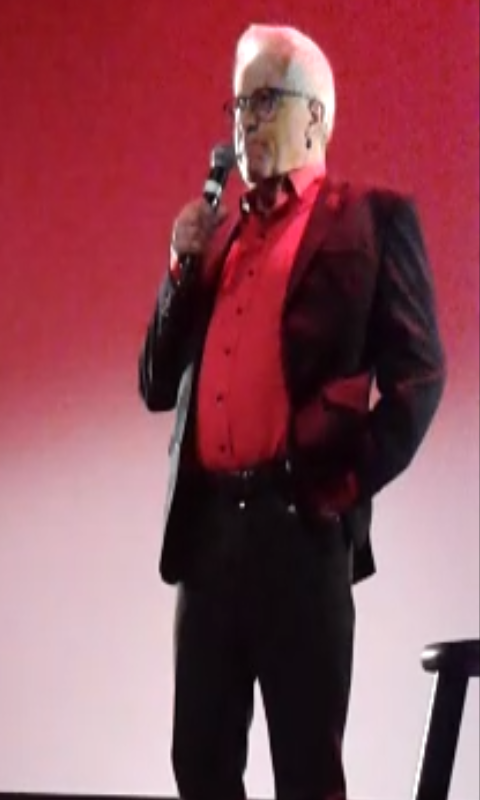 Daniel Ratthé photographed in Ste. Thérèse , Québec, Canada at the Cabaret BMO.